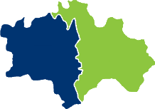 Districts of Chiayi